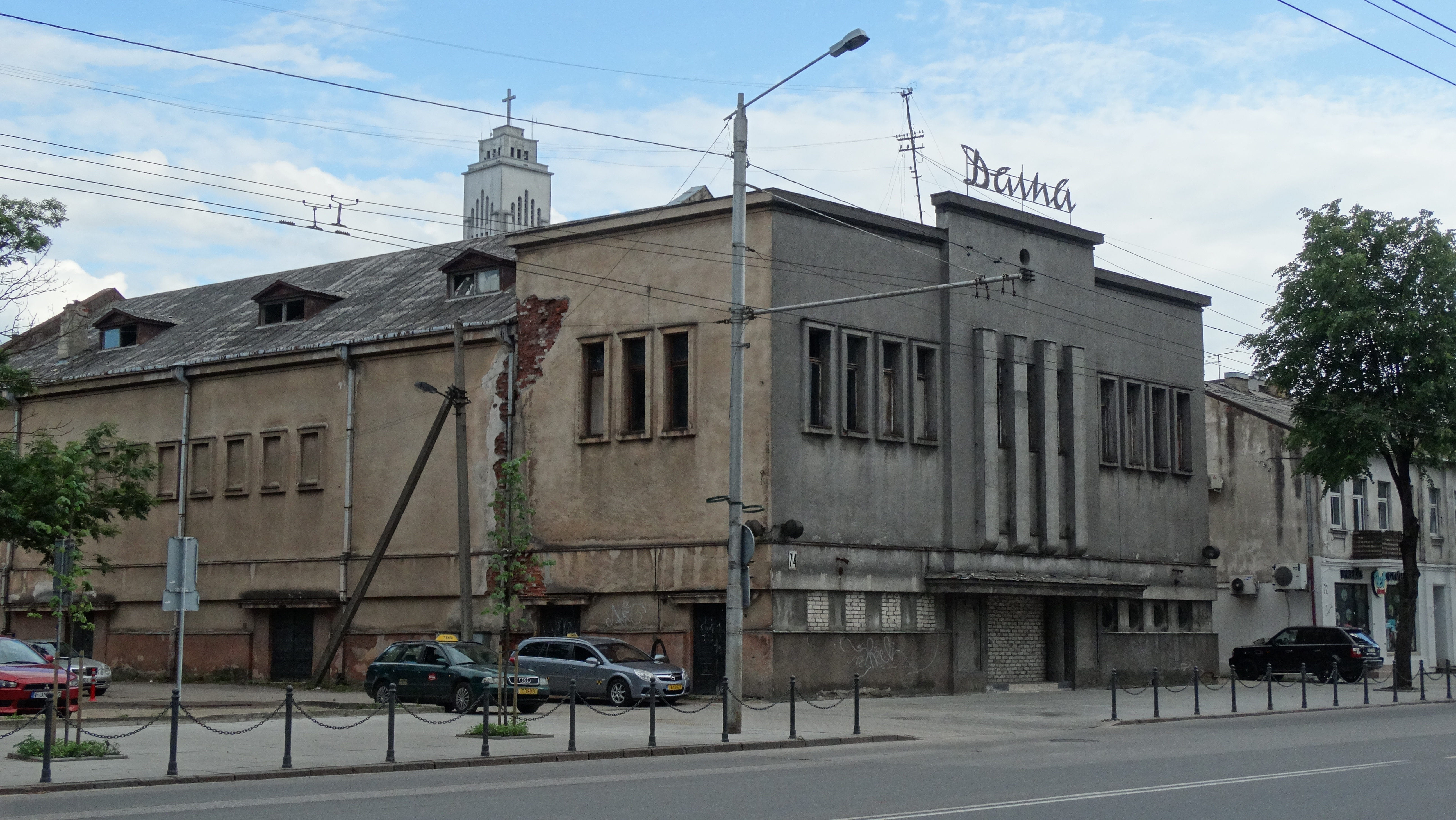 Former cinema „Pasaka“, Kaunas, Lithuania